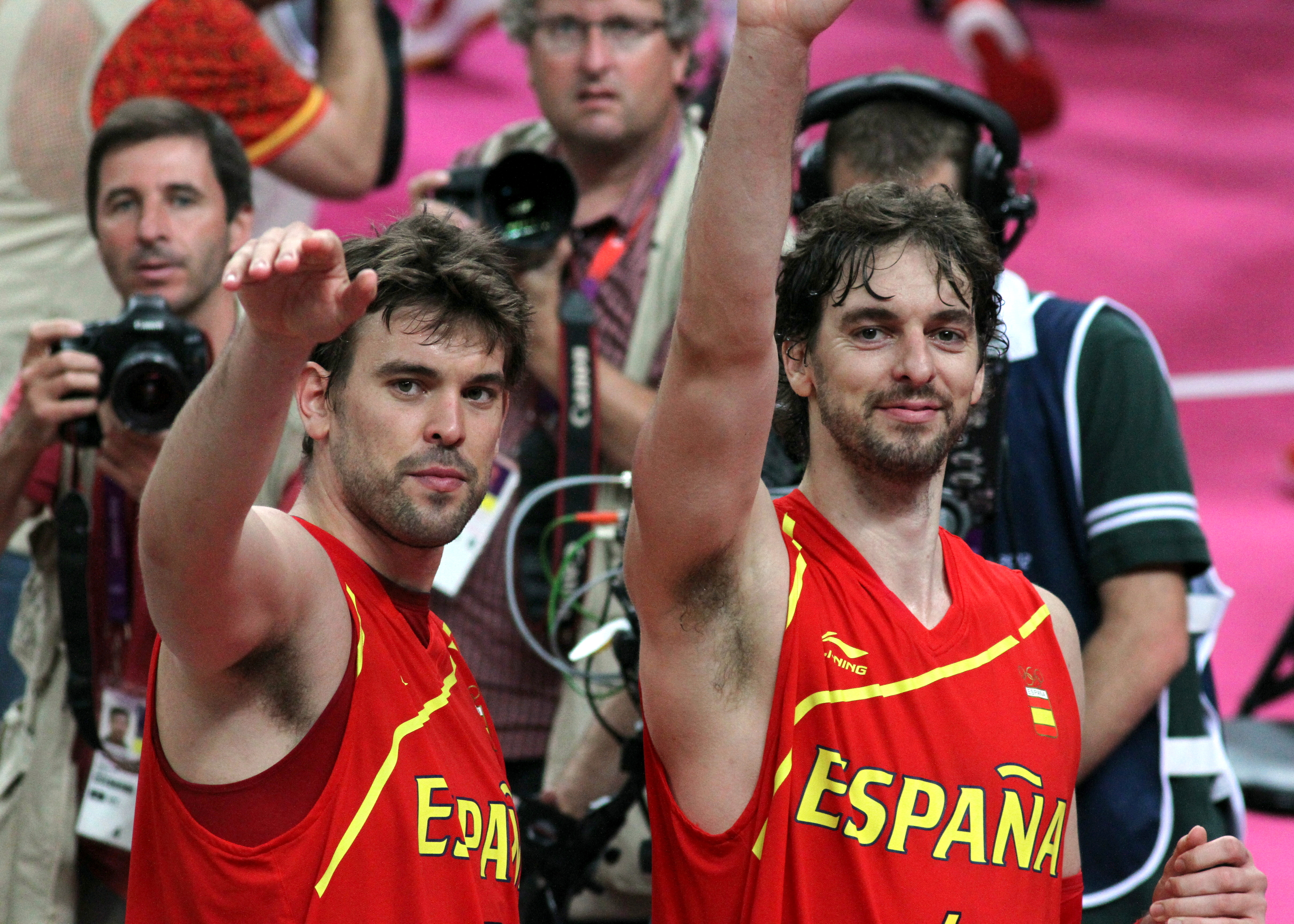 Marc (left) and Pau Gasol playing for Spain.